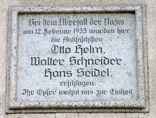 Breiter Weg 30, Lutherstadt Eisleben, Mainhouse, commemorative plaque